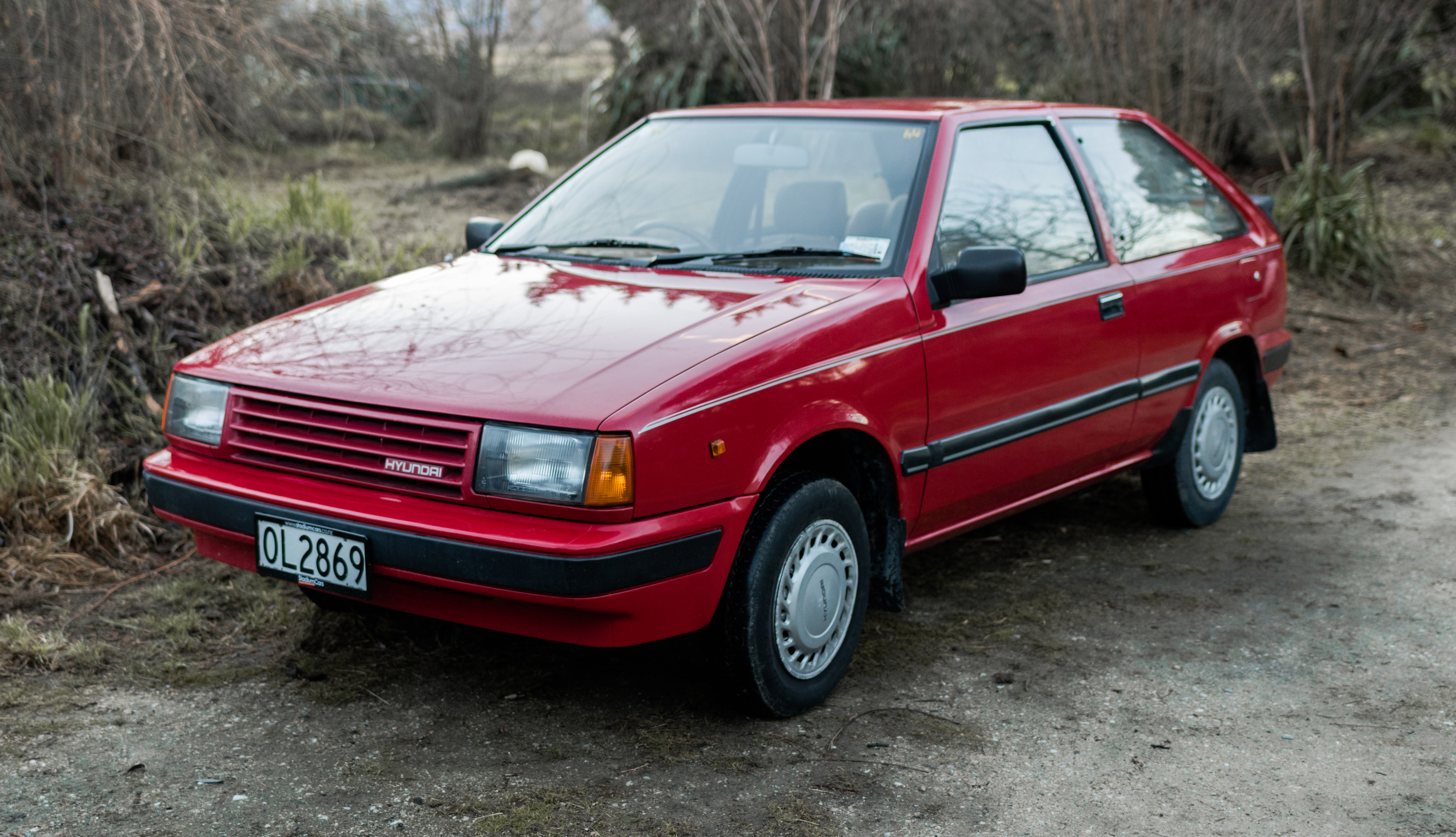 Red 1989 Hyundai Excel GL Front Left